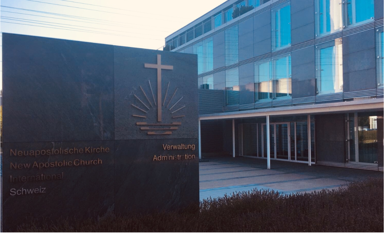 Headquarters of the New Apostolic Church International in Zurich, Switzerland (Ueberlandstrasse 243)